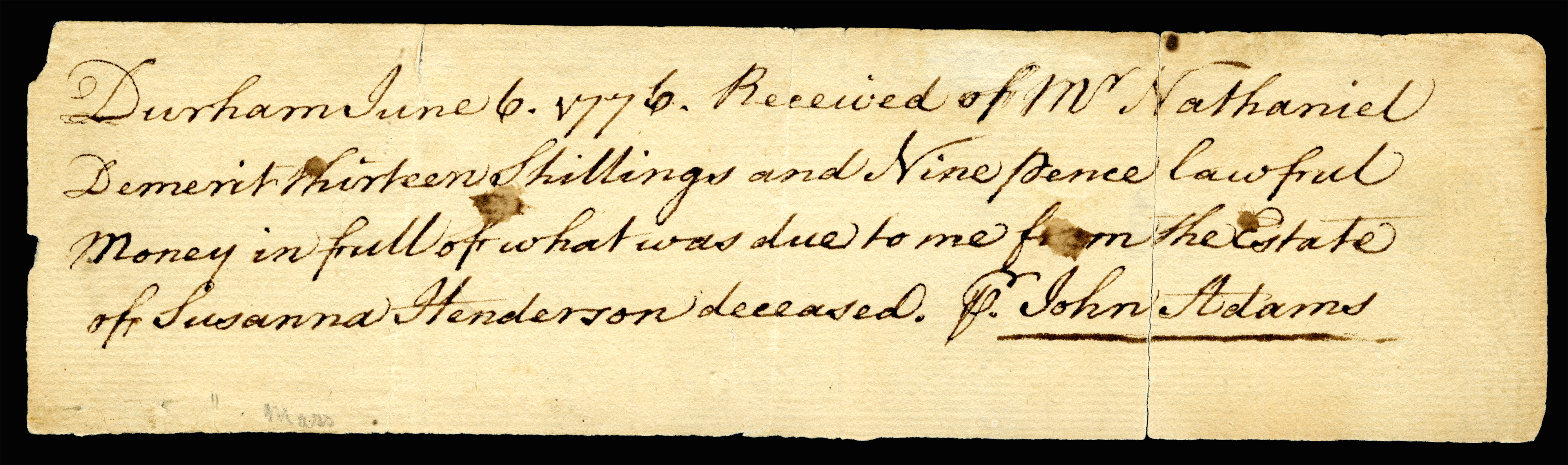 A signed check by John Adams (2nd President of the United States) while serving as a Massachusetts delegate to the Second Continental Congress.